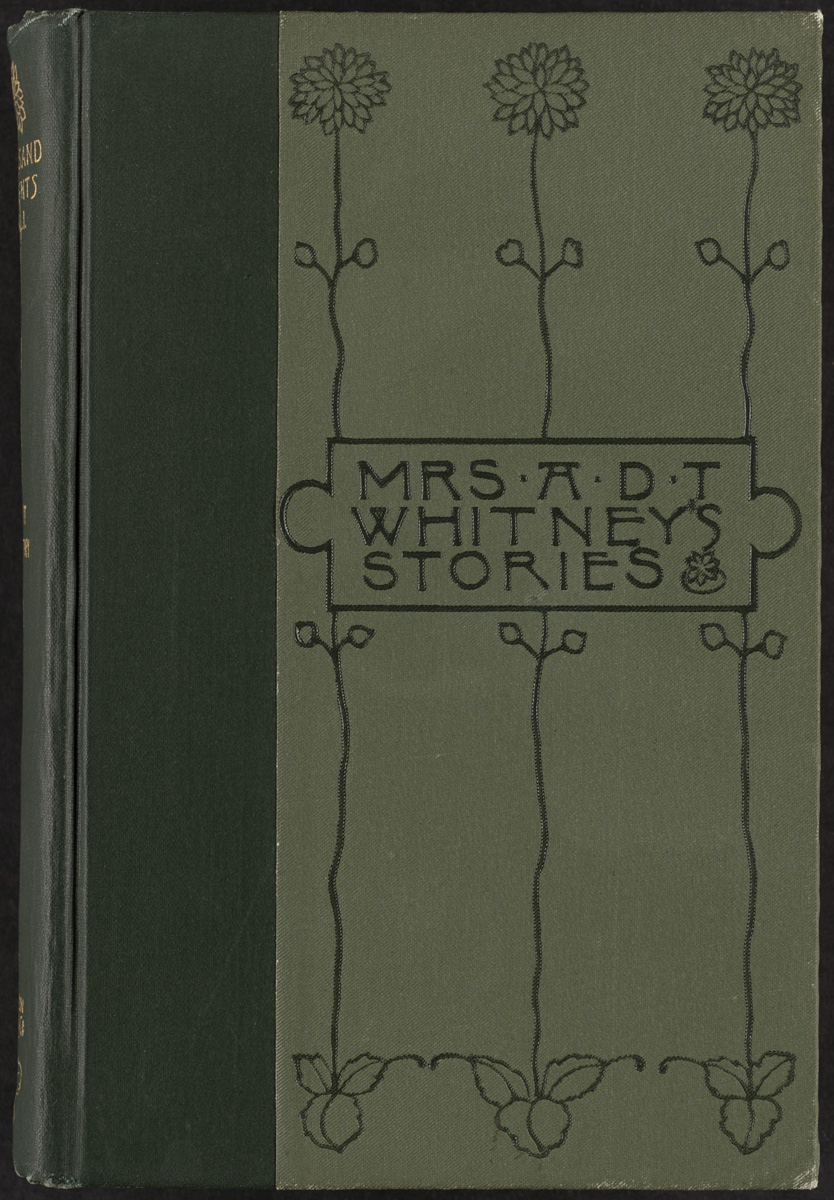 File name: 06_04_000268Title: WHITNEY(1899) Sights and insightsDate issued: 1899Genre: Book coversNotes: Whitney, A. D. T. (Adeline Dutton Train), 1824-1906 (Author)Collection: Sarah Wyman Whitman BindingsLocation: Boston Public Library, Special CollectionsRights: No known copyright restrictions.